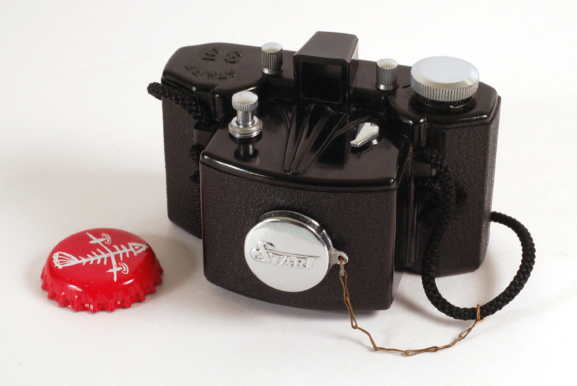 The Start 35 is a simple bakelite camera made in Japan c1950 by Ikko Sha. It takes 24mm square exposures on 35mm "Bolta" size rollfilm, loaded through the removable top. The original box for this camera says, "Start Junior Pen Camera". I included a bottlecap in the photo to show how small this camera is.